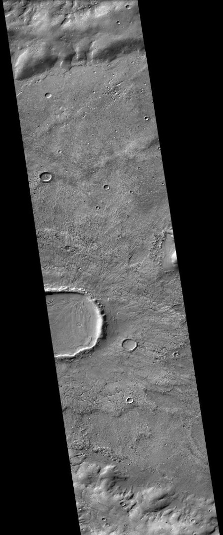 Le Verrier Crater, as seen by CTX